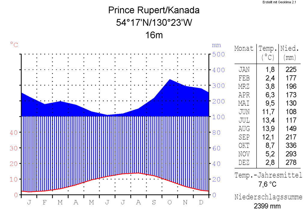 climate chart in the format by Walther and Lieth, metric, °Celsisus and millimeters, made with Geoklima 2.1